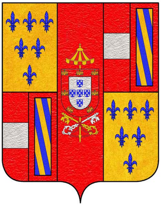 Farnese coat of arms as Duke of Parma